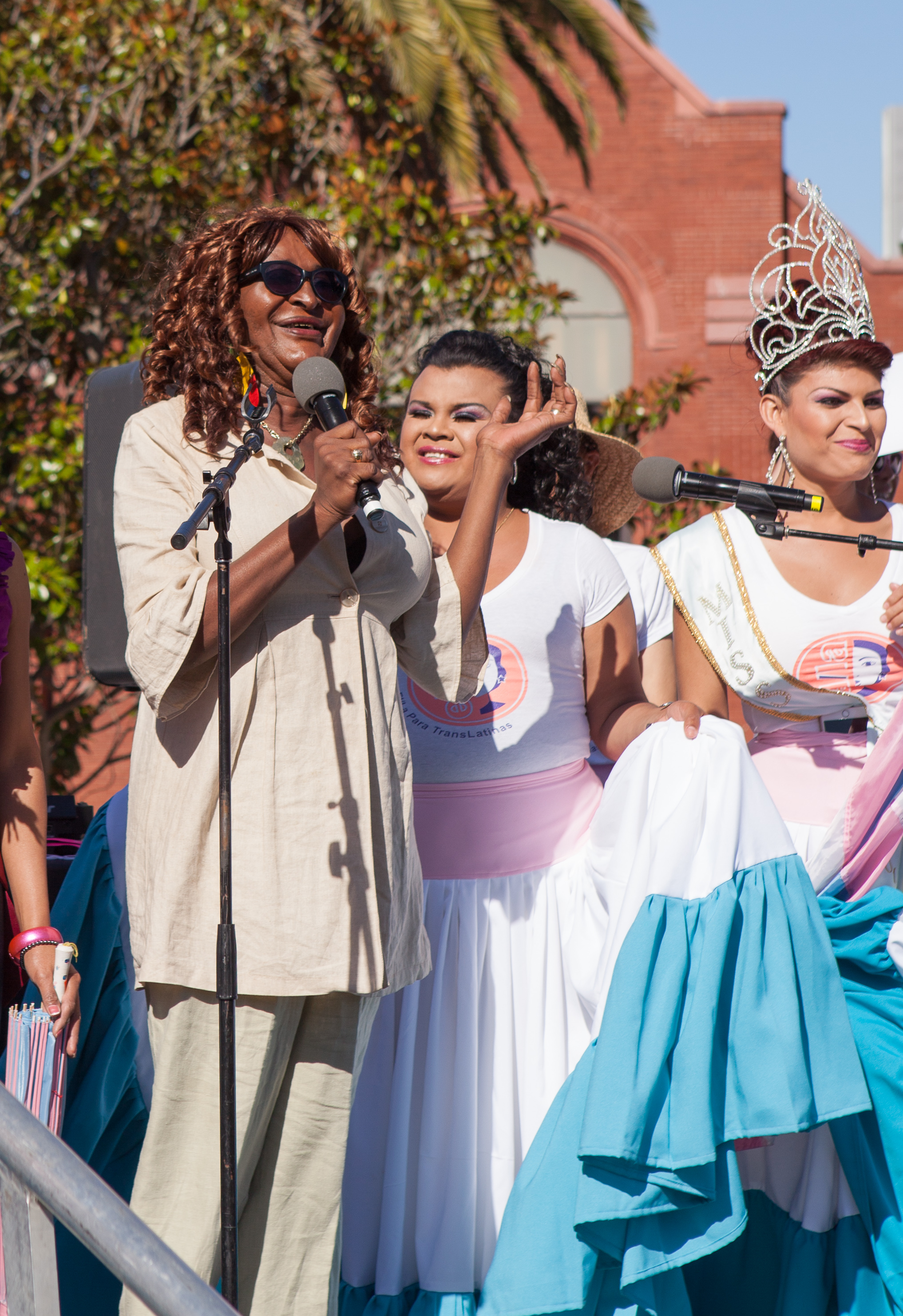 Janetta Johnson of the TGI Justice Project, accompanied by members of El/La TransLatinas, speaks on stage at the San Francisco Trans March 2016.